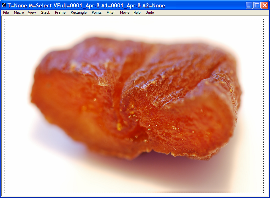 A screenshot of CombineZM.